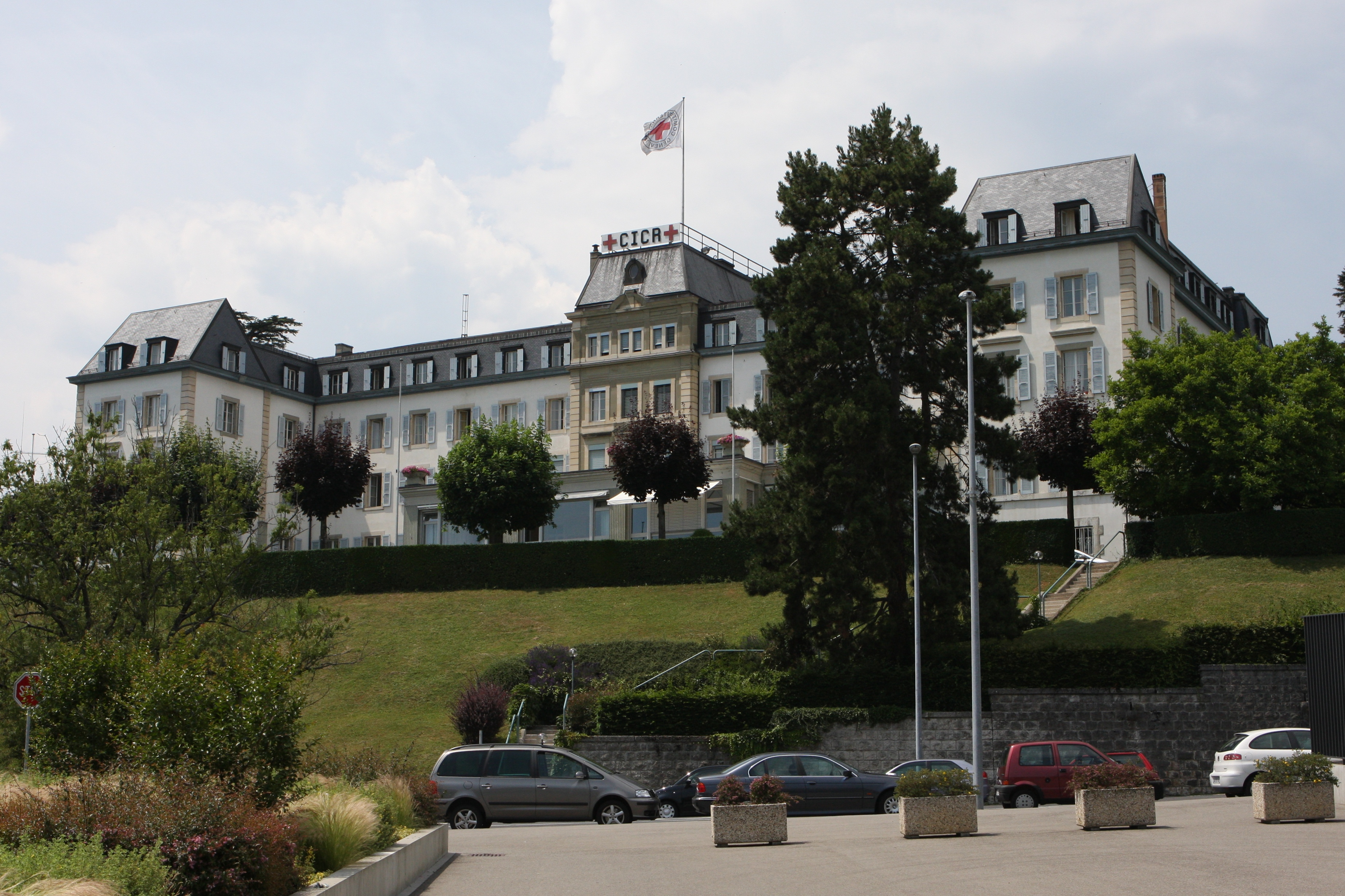 International Red Cross and Red Crescent Museum Geneva